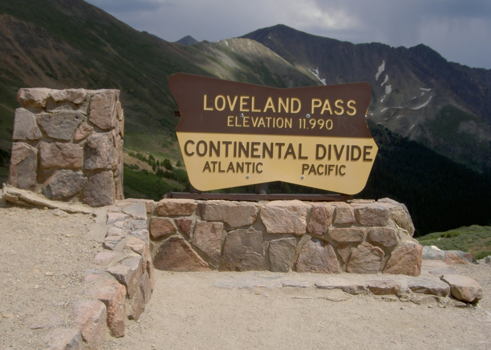 The Loveland Pass, Colorado in July